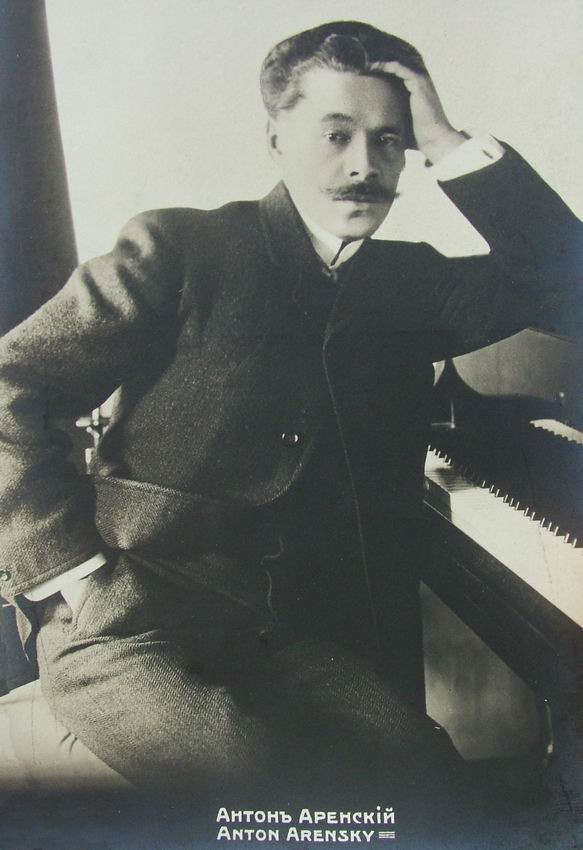 Composer Arensky Antonii